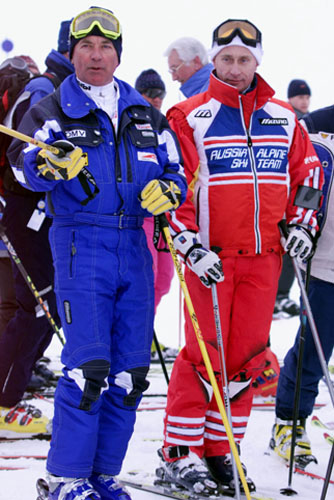 ST. ANTON, FEDERAL REGION OF TYROL, AUSTRIA. Alpine skier Karl Schranz at the world-famous ski resort of St. Anton.